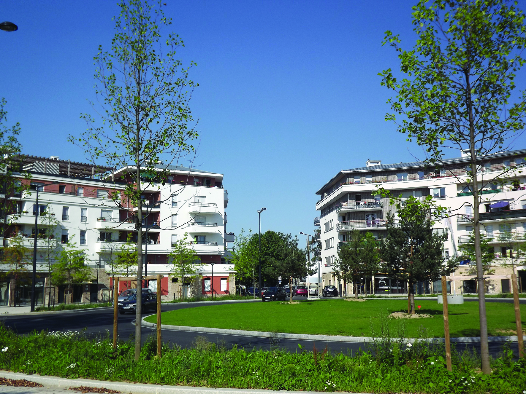 Place Notre-Dame-des-Anges à Montfermeil (quartier des Bosquets).